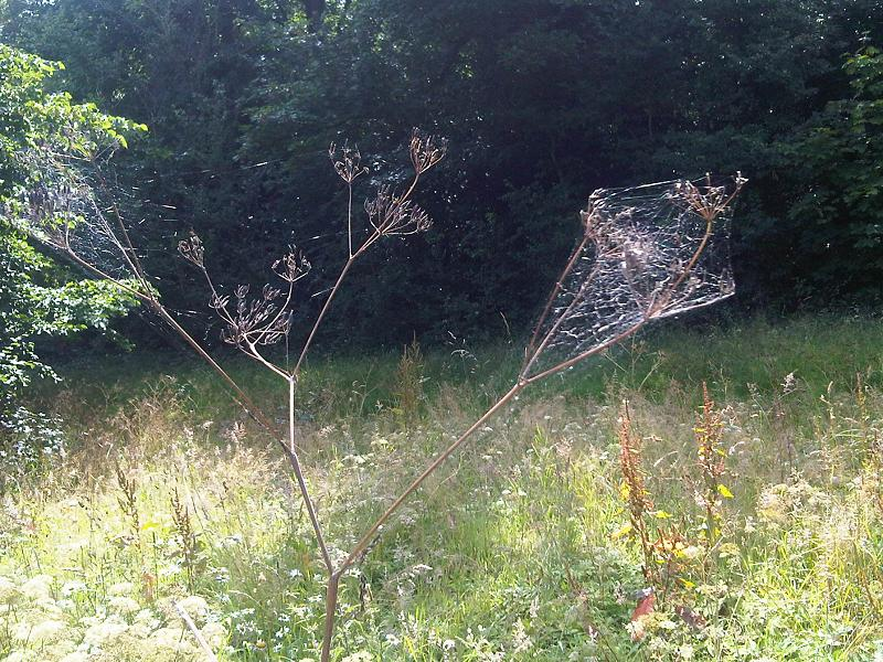 Spider web on an unidentified Apiaceae sp., in London, England. Below the plants are: Wild carrot (Daucus carota) and Broad-leaved Dock (Rumex obtusifolius).